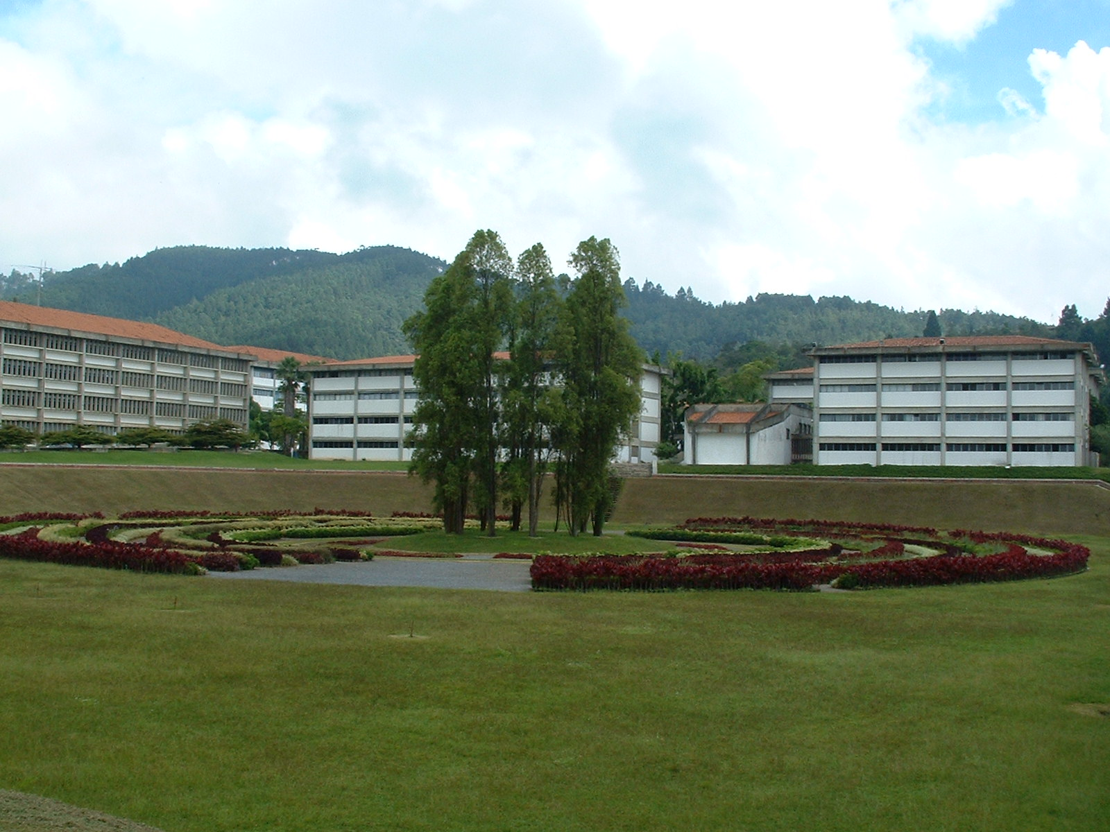 Photo of a central garden in the University Simón Bolívar. The garden was artistically conceived by the artist Carlos Cruz Diez. Being the icon by excelence of the University it also has an interesting history. Behind it can be seen the buildings (left to right) ELE (Electronics' Lab) MEM (Mechanics and Materials) and MEU (Mechanics and Urbanism). Unseen to the right is the main library